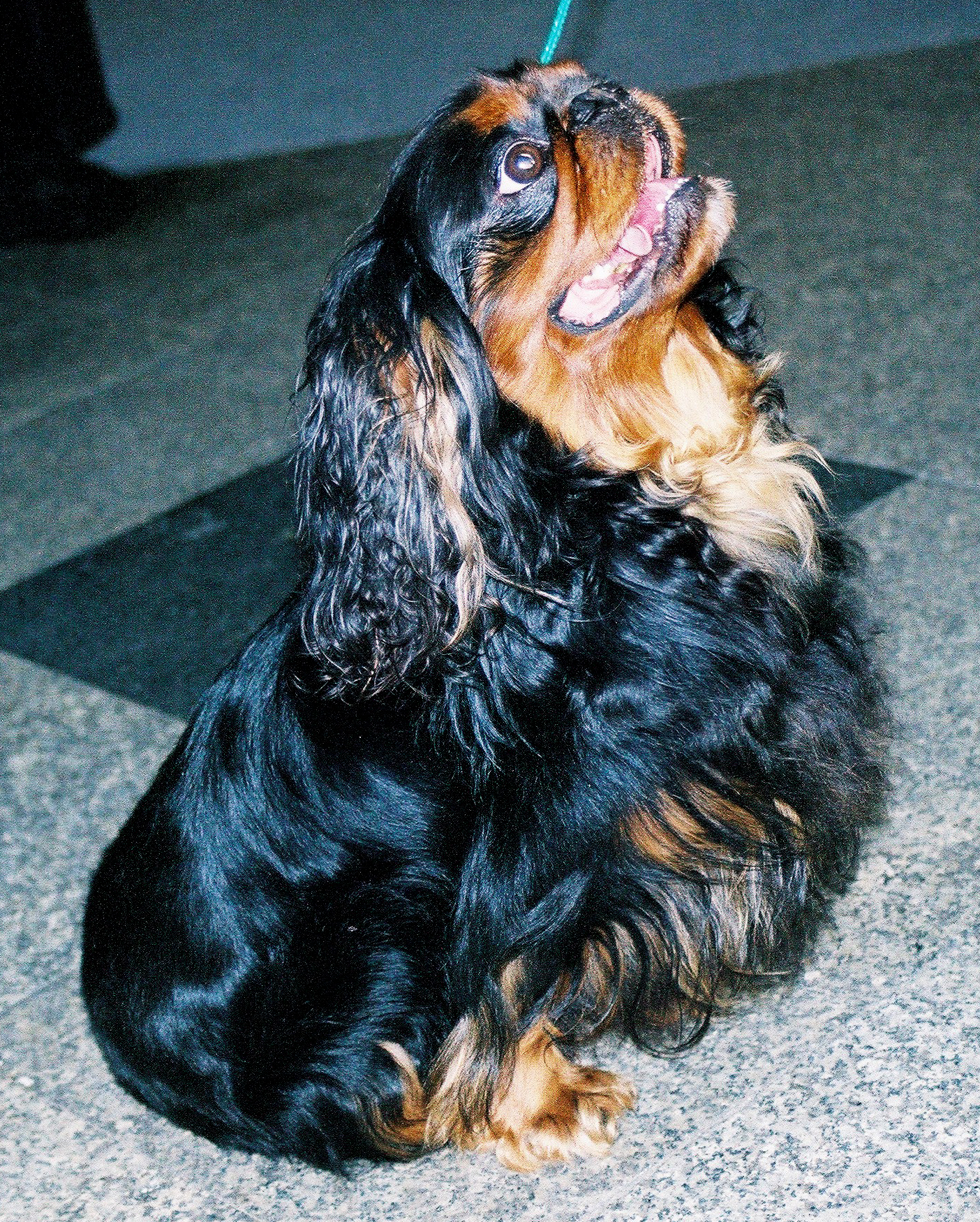 A King Charles Spaniel sitting whilst looking upwards, during dog's show in Katowice - Spodek, Poland.